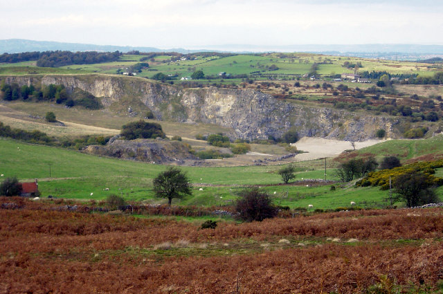 Limestone Quarry, Minera. Extensive quarry and lime workings north of Hafod farm